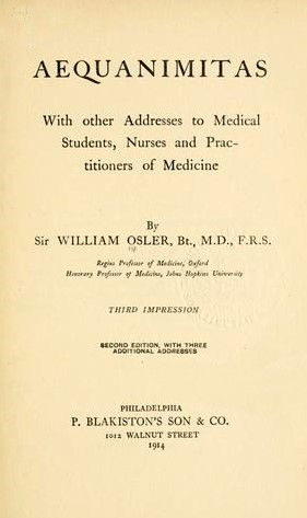 Aequanimitas cover